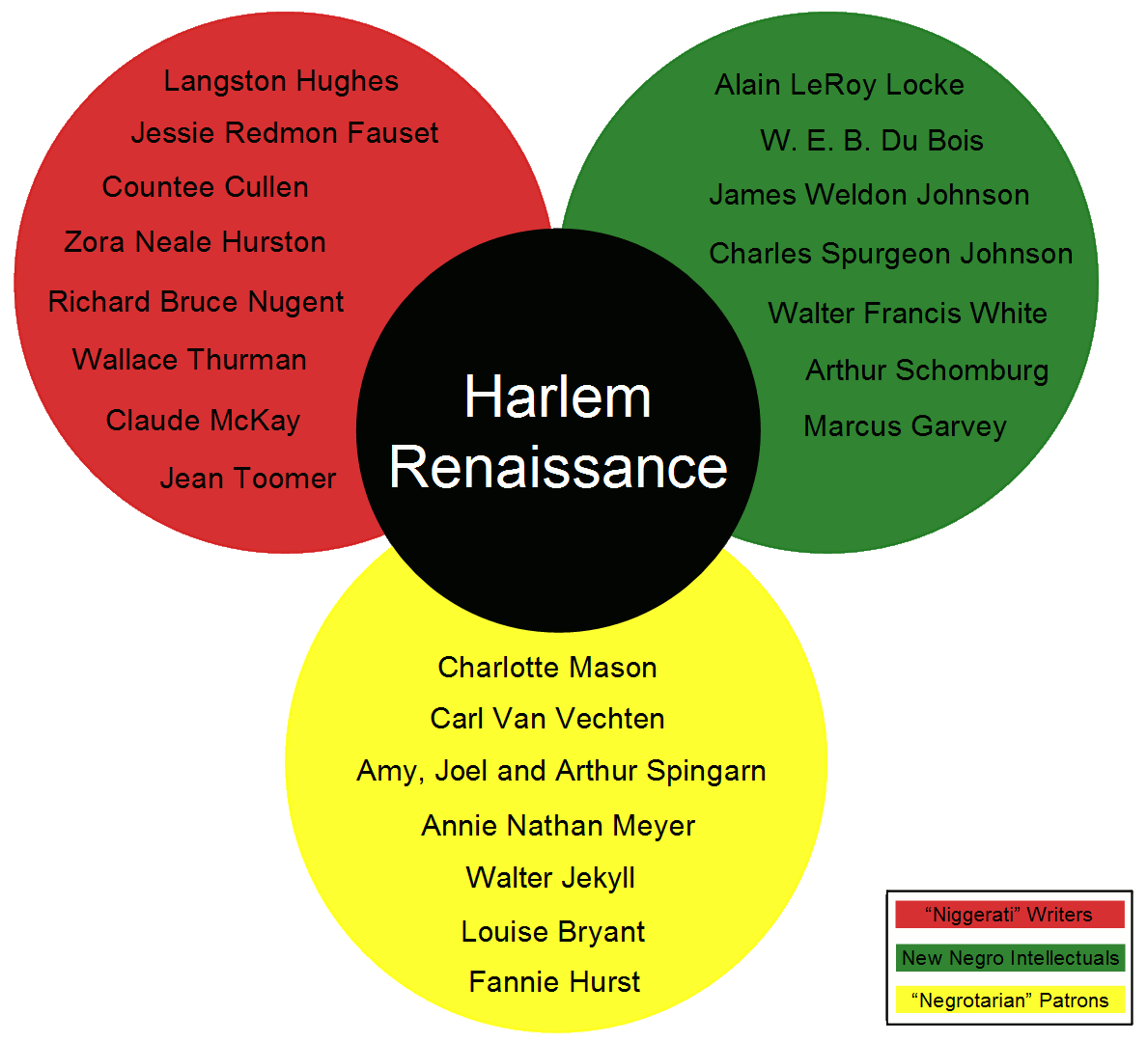 This chart shows three groups of major contributors to the flowering of the New Negro Movement during the 1920's and 1930's in Harlem: Niggerati writers, New Negro intellectuals and Negrotarian patrons.